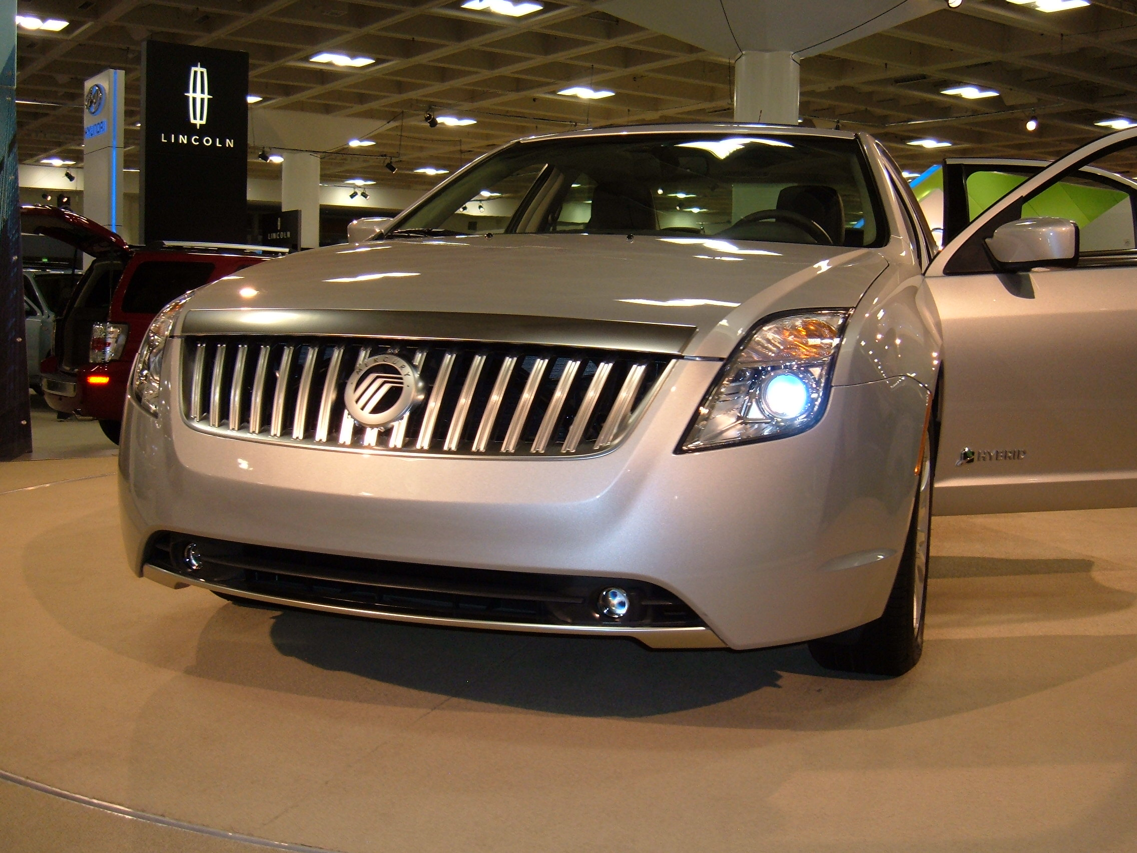 A 2010 Mercury Milan Hybrid at the 2008 San Francisco International Auto Show.